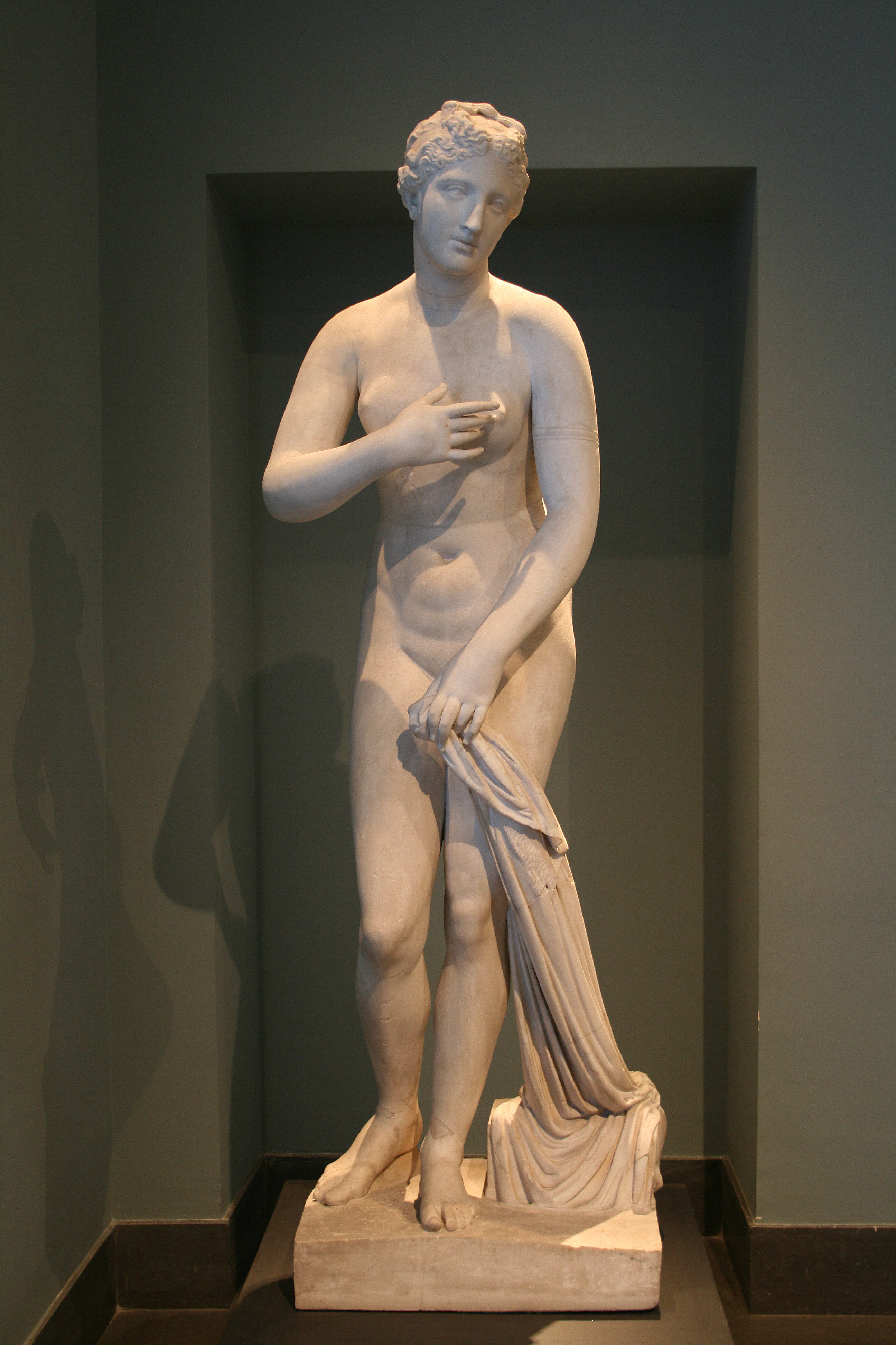 Aphrodite of Menophantos: Venus pudica, the best-known copy type of the Venus of Cnidus, here bearing the signature of the sculptor Menophantos: "work by Menophantos, after the Aphrodite in the Troad". Marble, Greek artwork, 1st century BC. From the church San Gregorio al Celio.